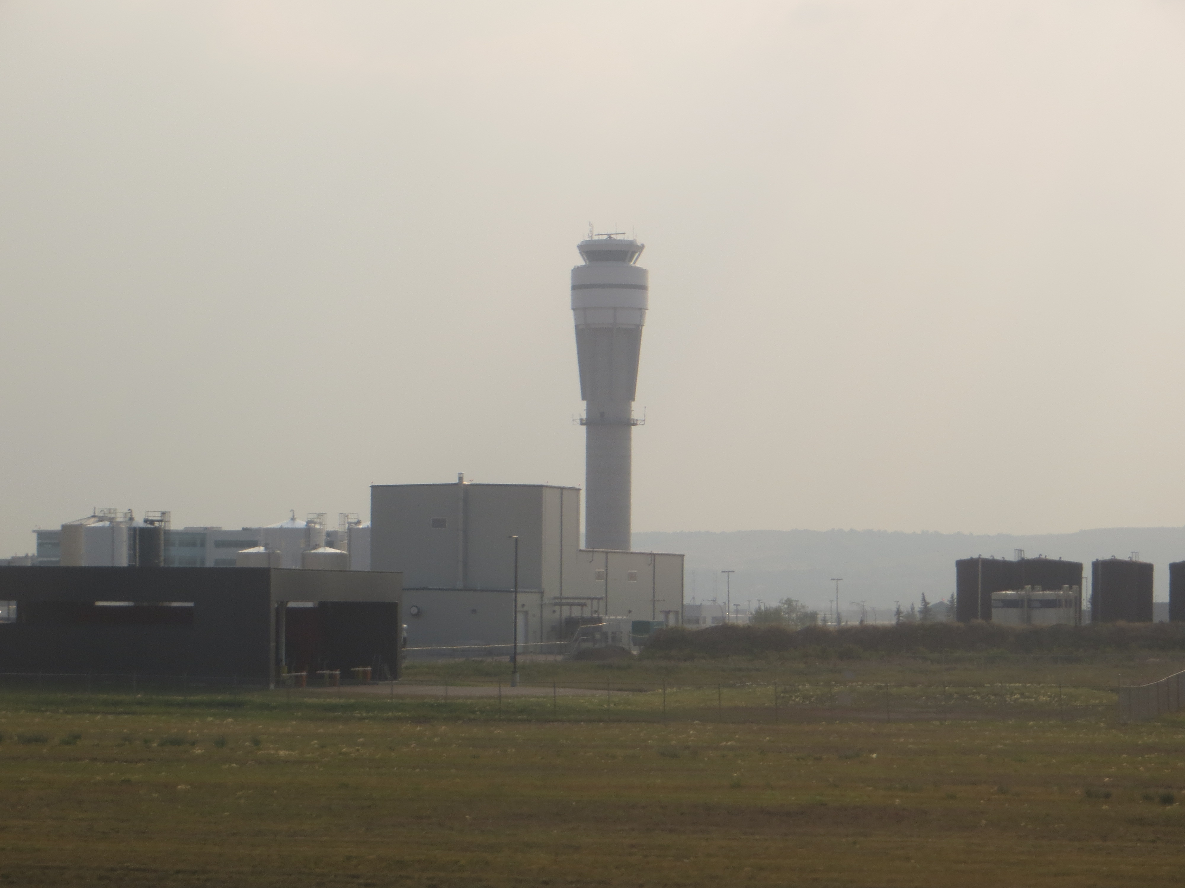 The air traffic control tower at Calgary airport.